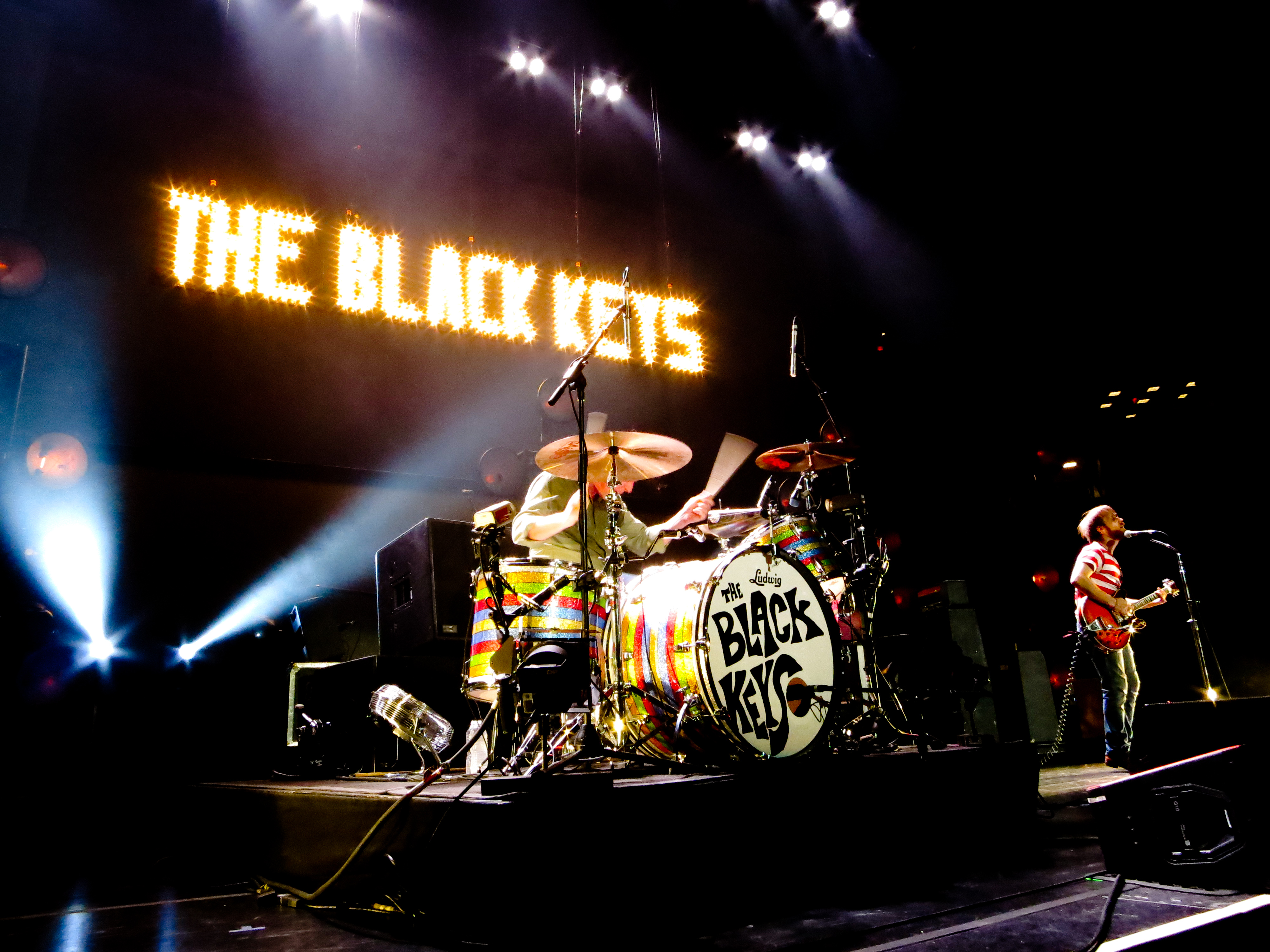 The Black Keys performing at Madison Square Garden in New York City on March 22nd, 2012.